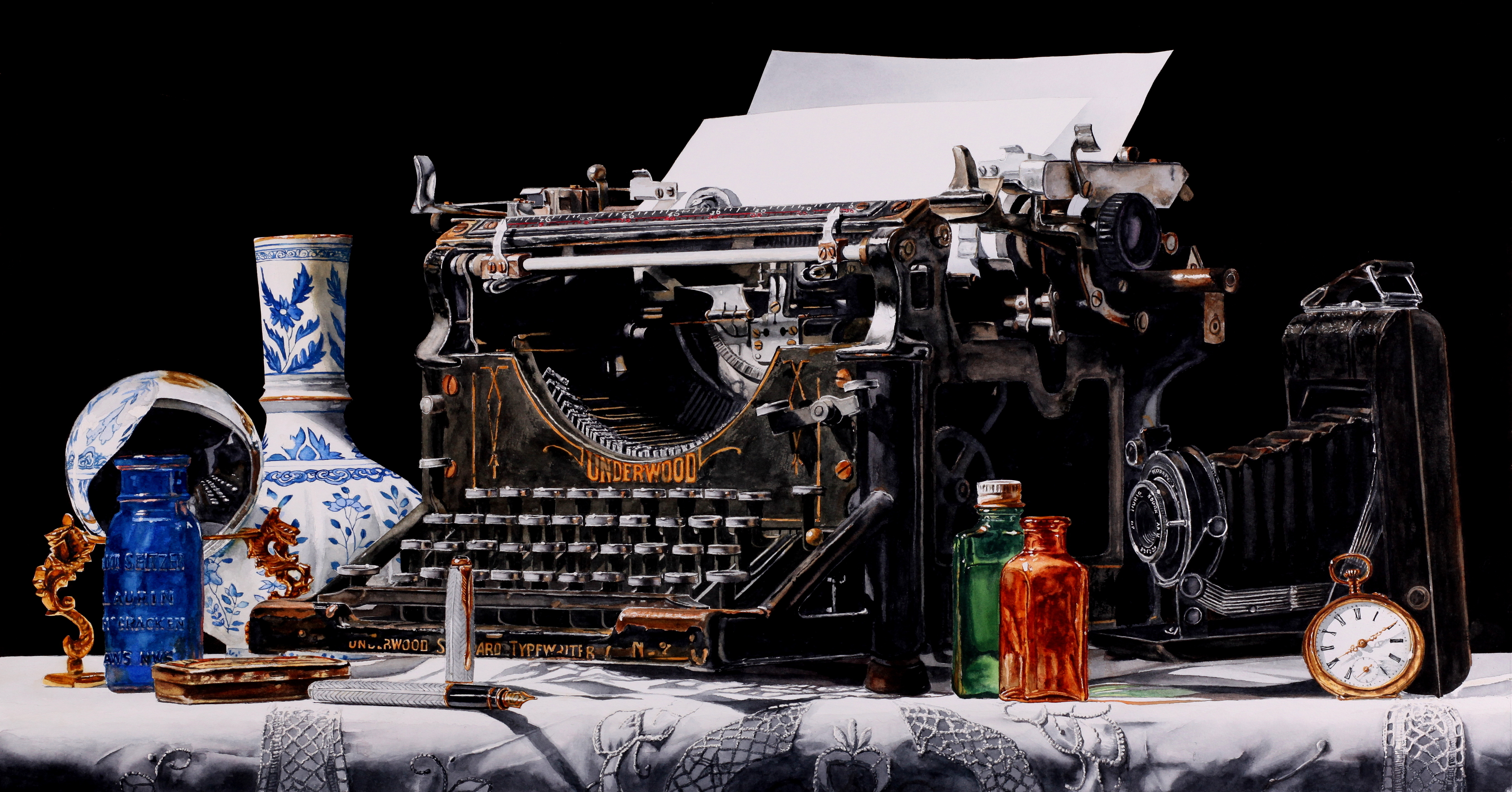 Underwood by Laurin McCracken